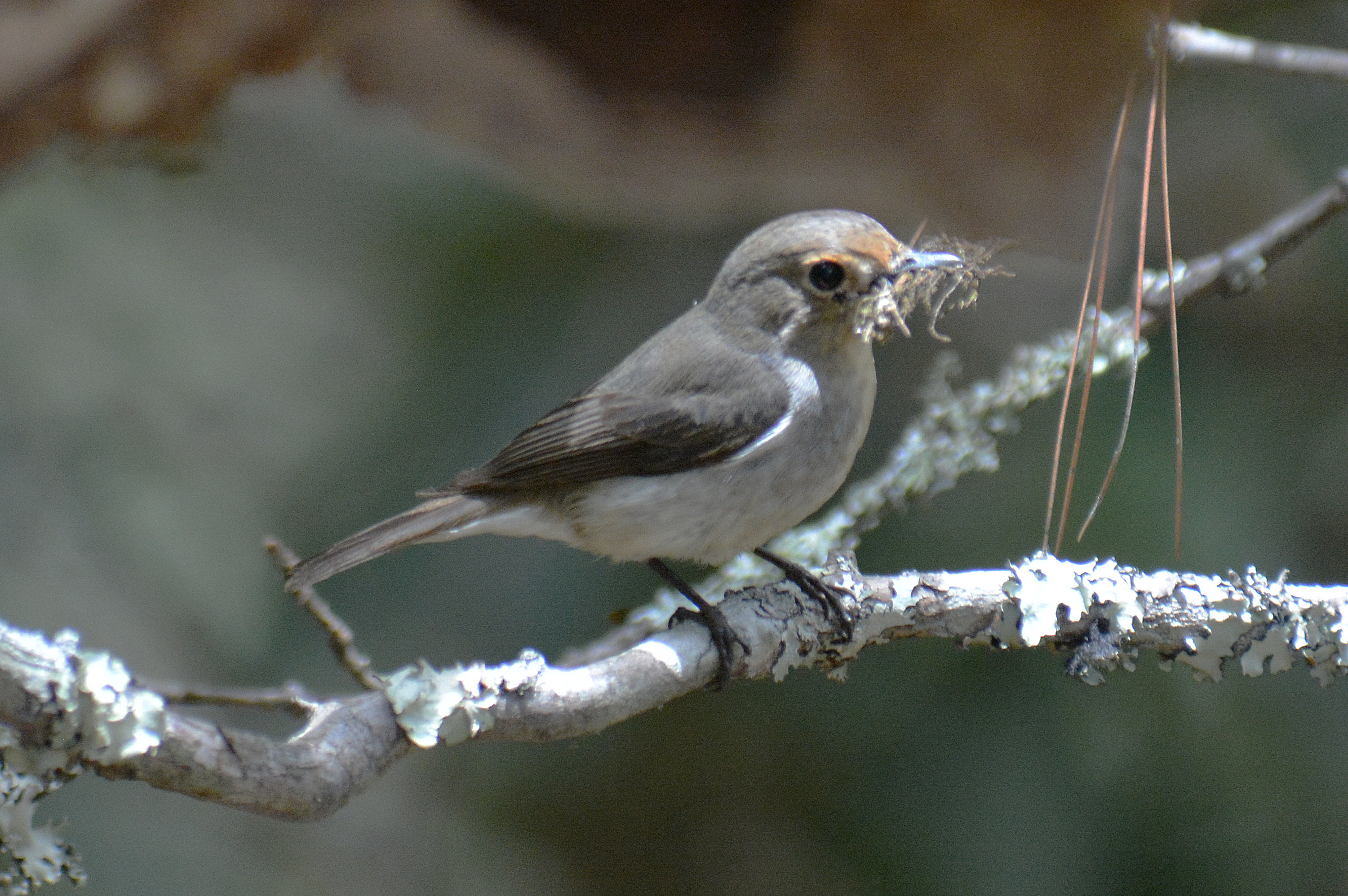 Ultramarine Flycatcher Ficedula superciliaris female by Dr. Raju Kasambe. Photo taken at Tiger Nest or Taktsang in Bhutan